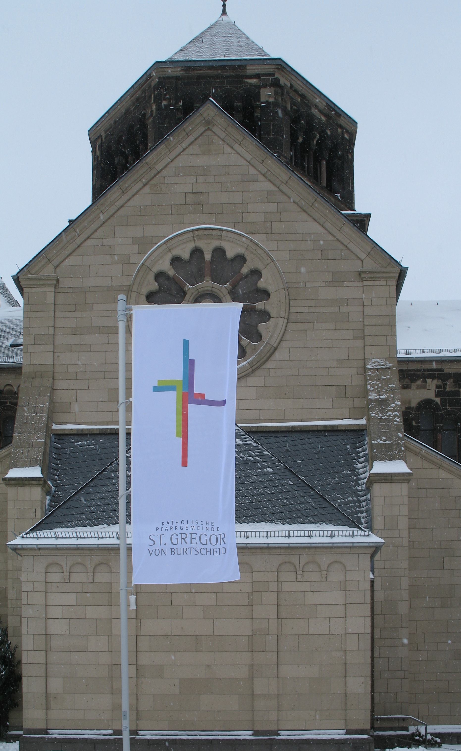 Flag of the newly formly catholic parish "St Gregor of Burtscheid" in front of Herz Jesu church in Aachen, Germany